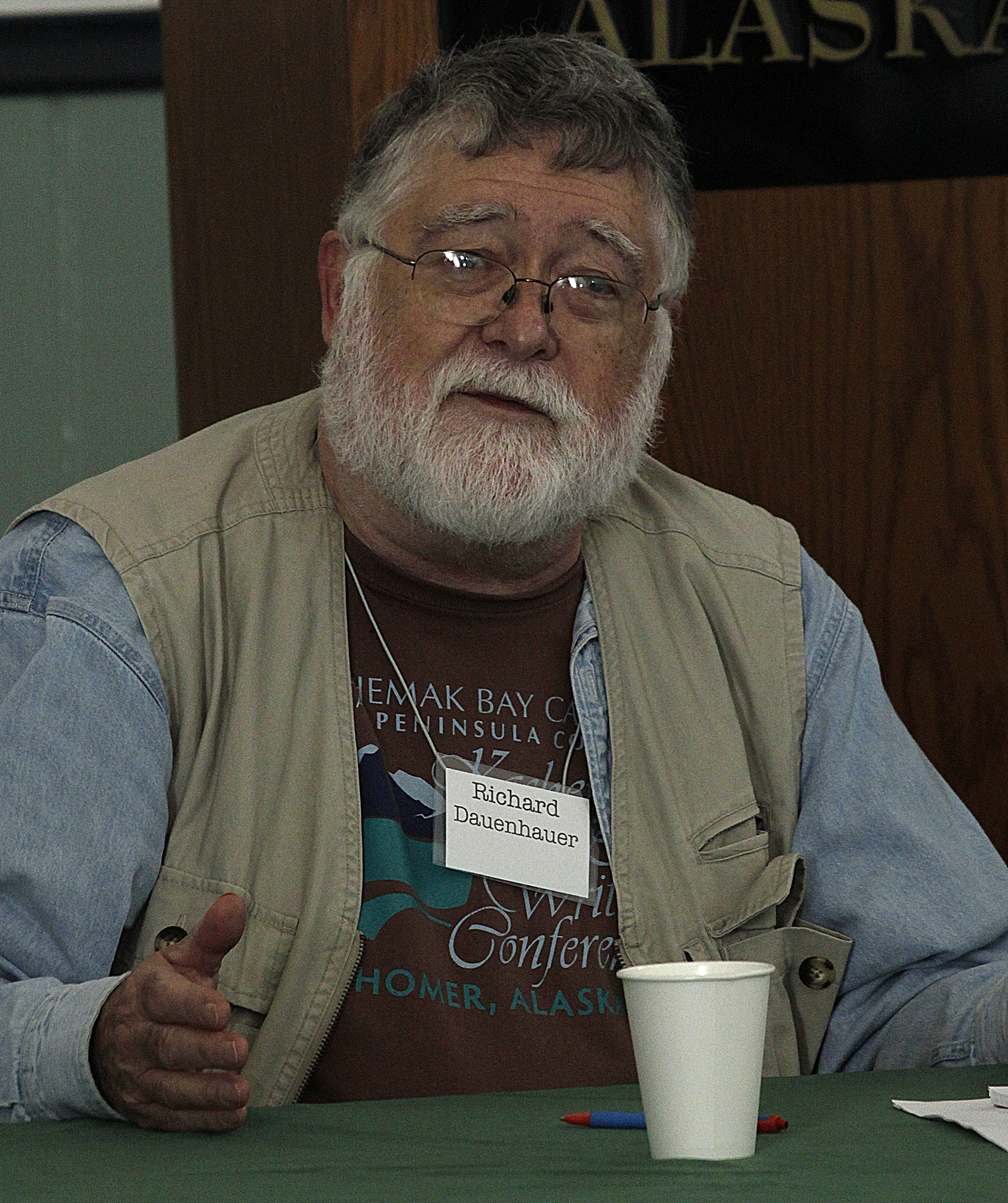 Alaskan author Richard Dauenhauer speaks May 29, 2014 during the North Words Writers Symposium in Skagway, Alaska. (James Brooks photo)